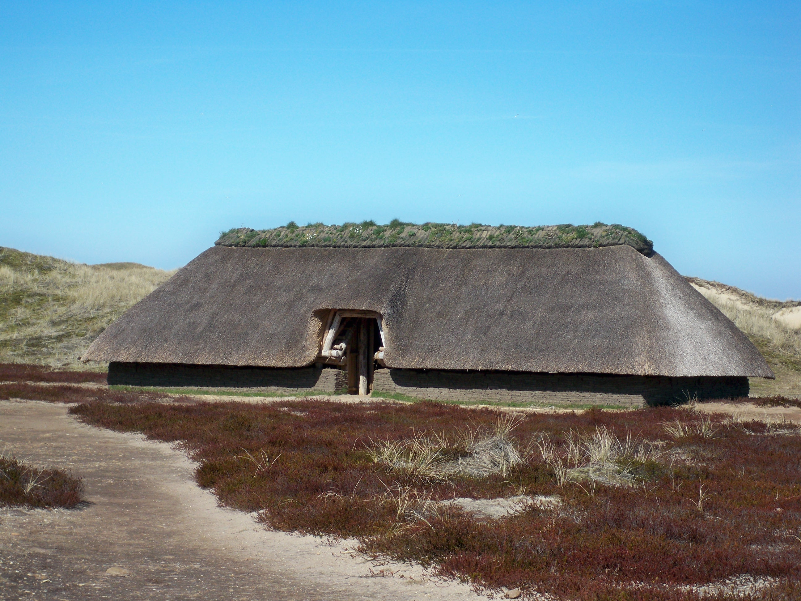 Nebel, Amrum, Schleswig-Holstein, replica of iron age house in the dunes, erected in 2014